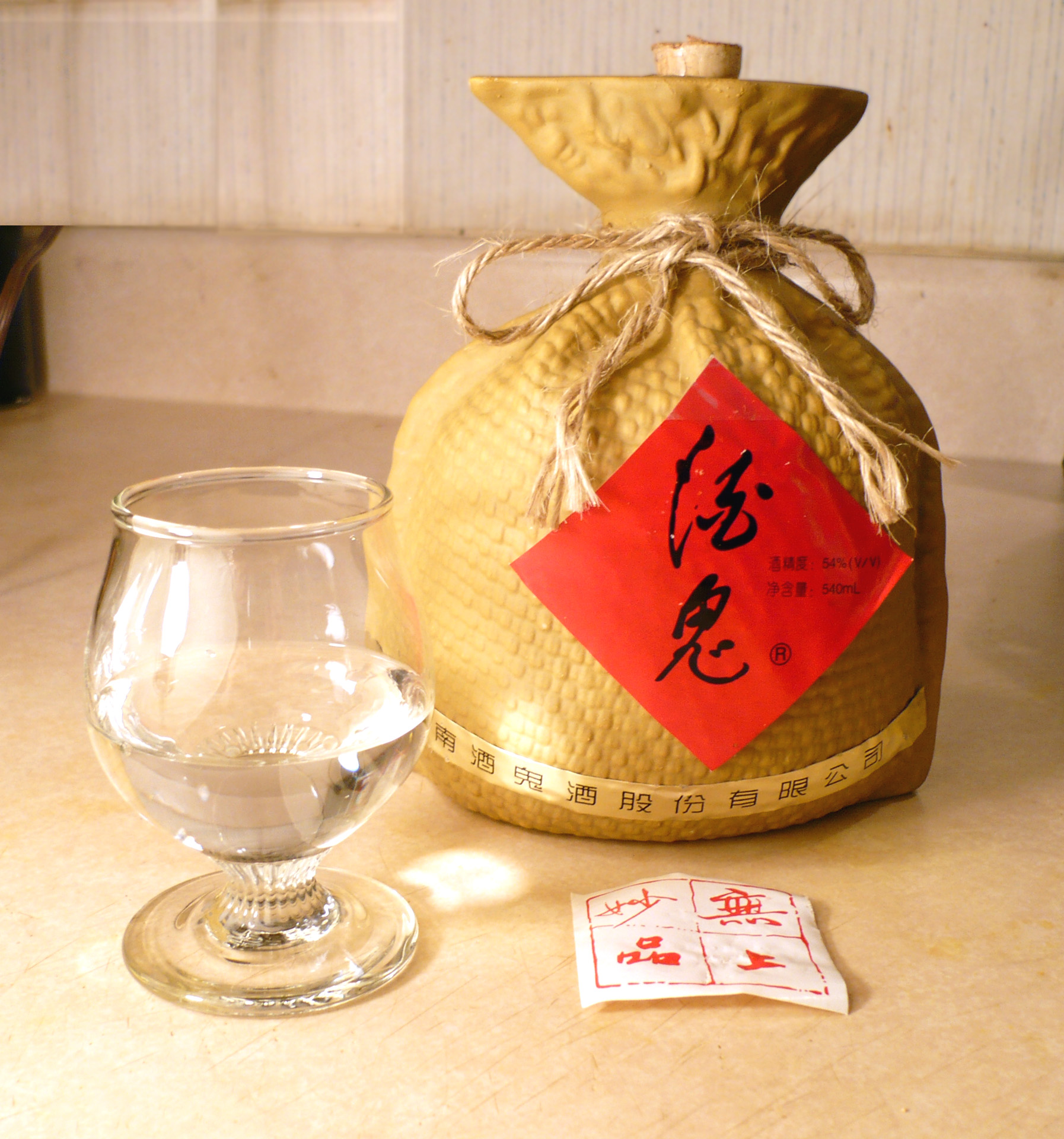 A glass and bottle of Jiugui (酒鬼; pinyin: jiǔ guǐ; lit. "drunkard" or "alcoholic"; also called Sot), a brand of baijiu (clear distilled Chinese liquor made from spring water, sorghum, glutinous rice, and wheat), produced by the Hunan Jiugui Liquor Co., Ltd., in the town of Zhenwu, in Jishou county-level city, Xiangxi Tujia and Miao Autonomous Prefecture, in the western part of the Hunan province. The liquor ranges from 38% to 54% alcohol by volume, and this particular bottle is 54% alcohol by volume. Photo taken in Kent, Ohio with a Panasonic Lumix digital camera (model DMC-LS75). The bottle of Jiugui was purchased in Beijing, China.